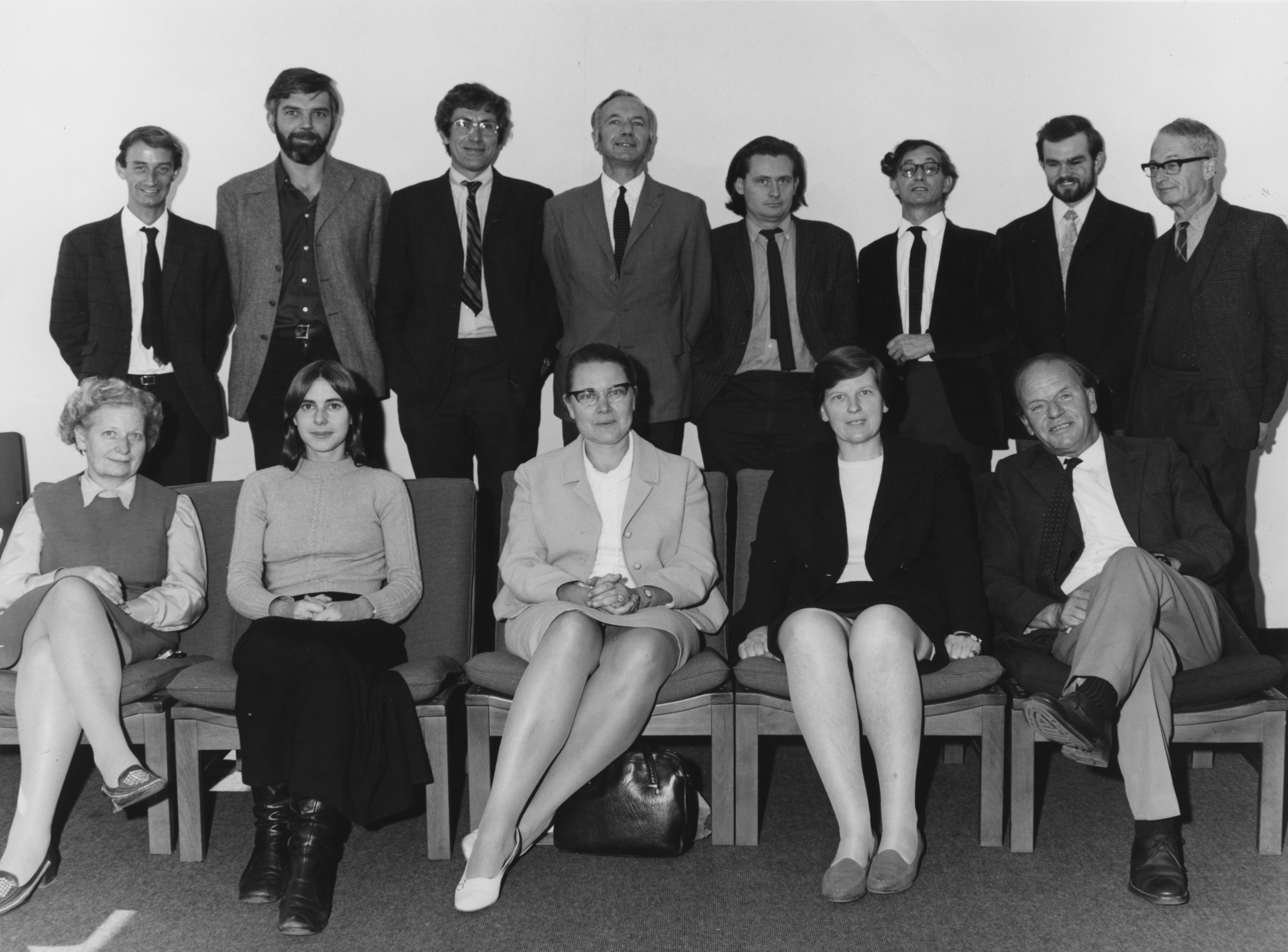 Seated left to right: Joan Lynas, Dorcas King, Charlotte Erickson, Olive Coleman, Jack Fisher. Standing left to right: Malcolm Falkus, Peter Earle, Edward Hunt, Jim Potter, John Gillingham, Daniel Waley, Colin Lewis, Walter Stern IMAGELIBRARY/232 Persistent URL